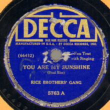 Rice Brothers Gang - You Are My Sunshine 78 (Decca) Recorded September 13, 1939, in New York, NY